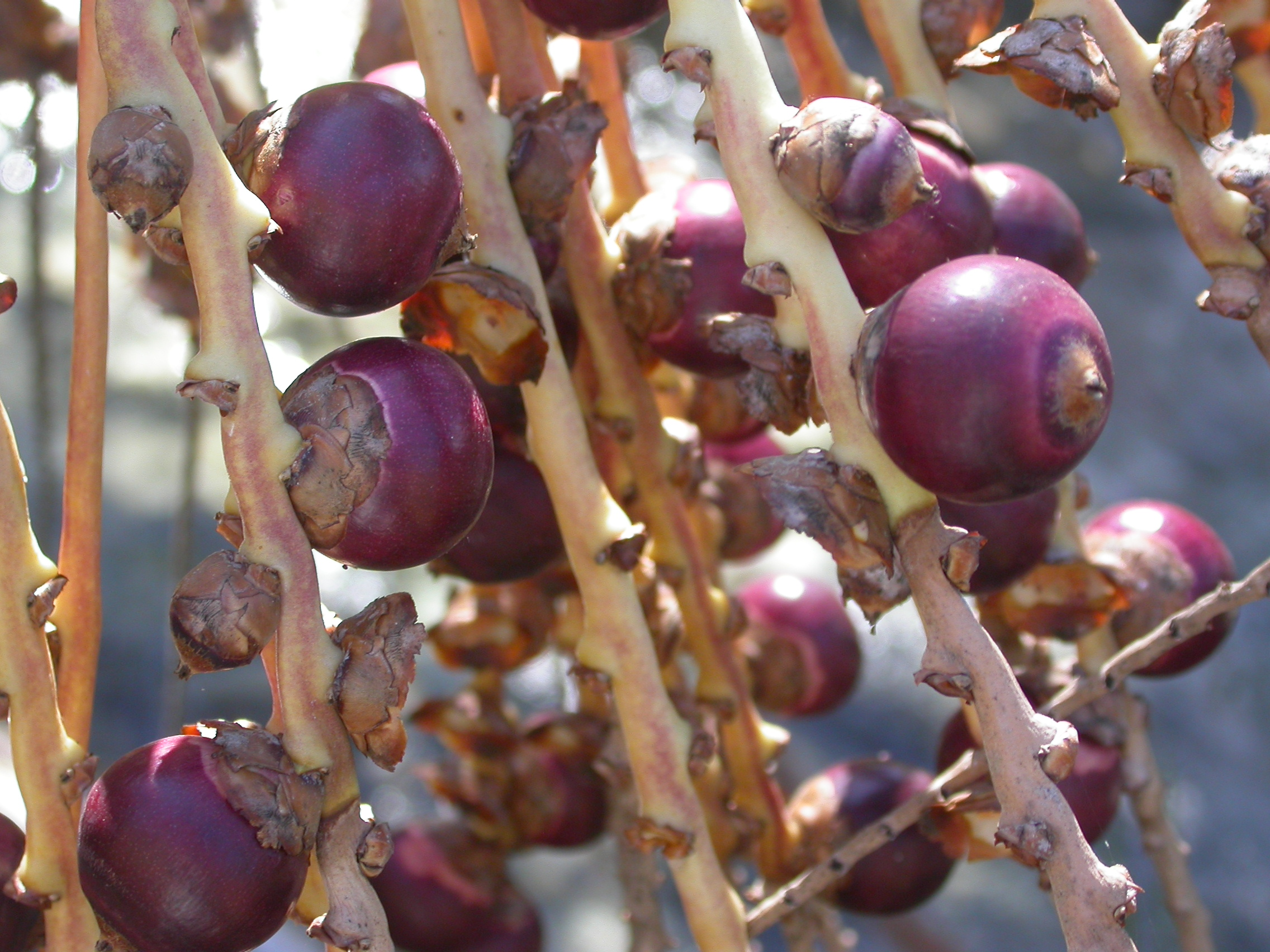 Close up of seeds of Beccariophoenix alfredii